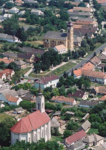 Iregszemcse, Hungary, aerialphotography